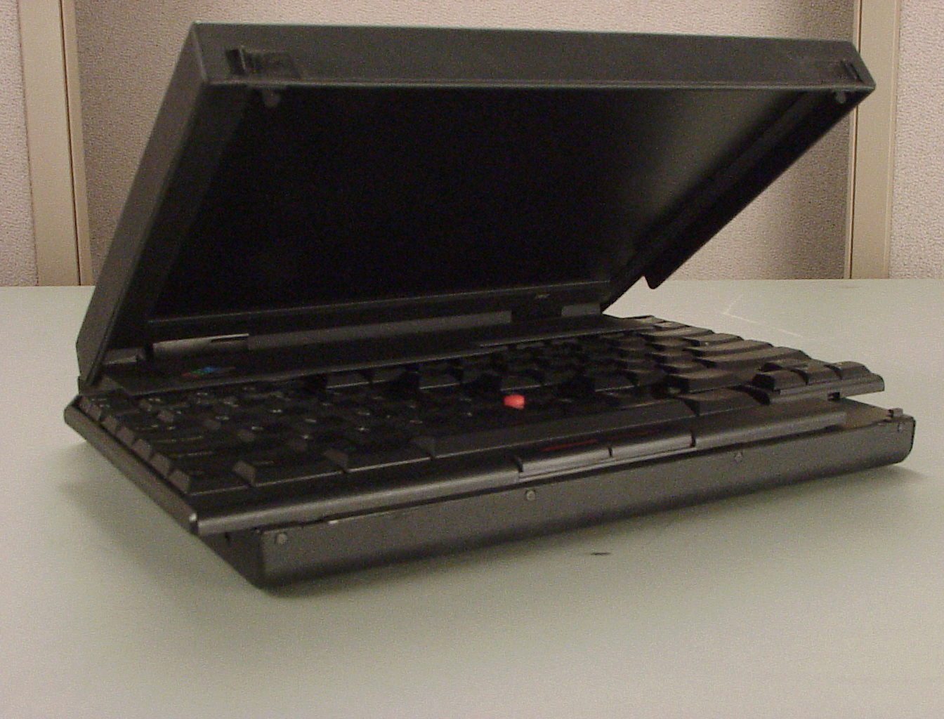 IBM ThinkPad 701 with Butterfly Keyboard. I am releasing image under GFDL licensing